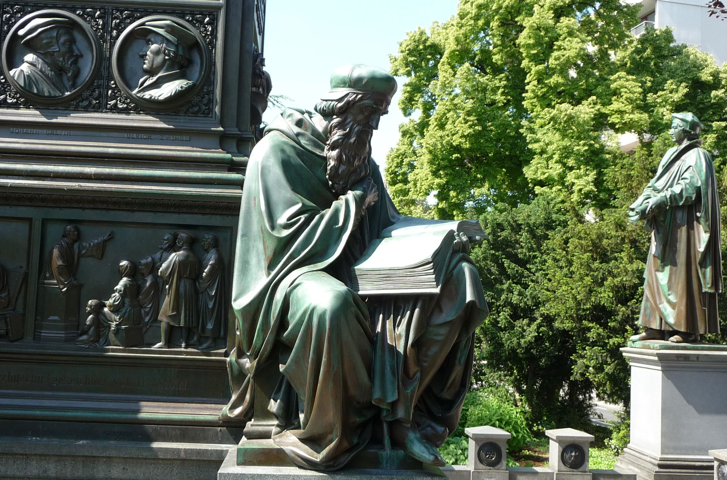 Lutherdenkmal (Worms): John Wycliffe